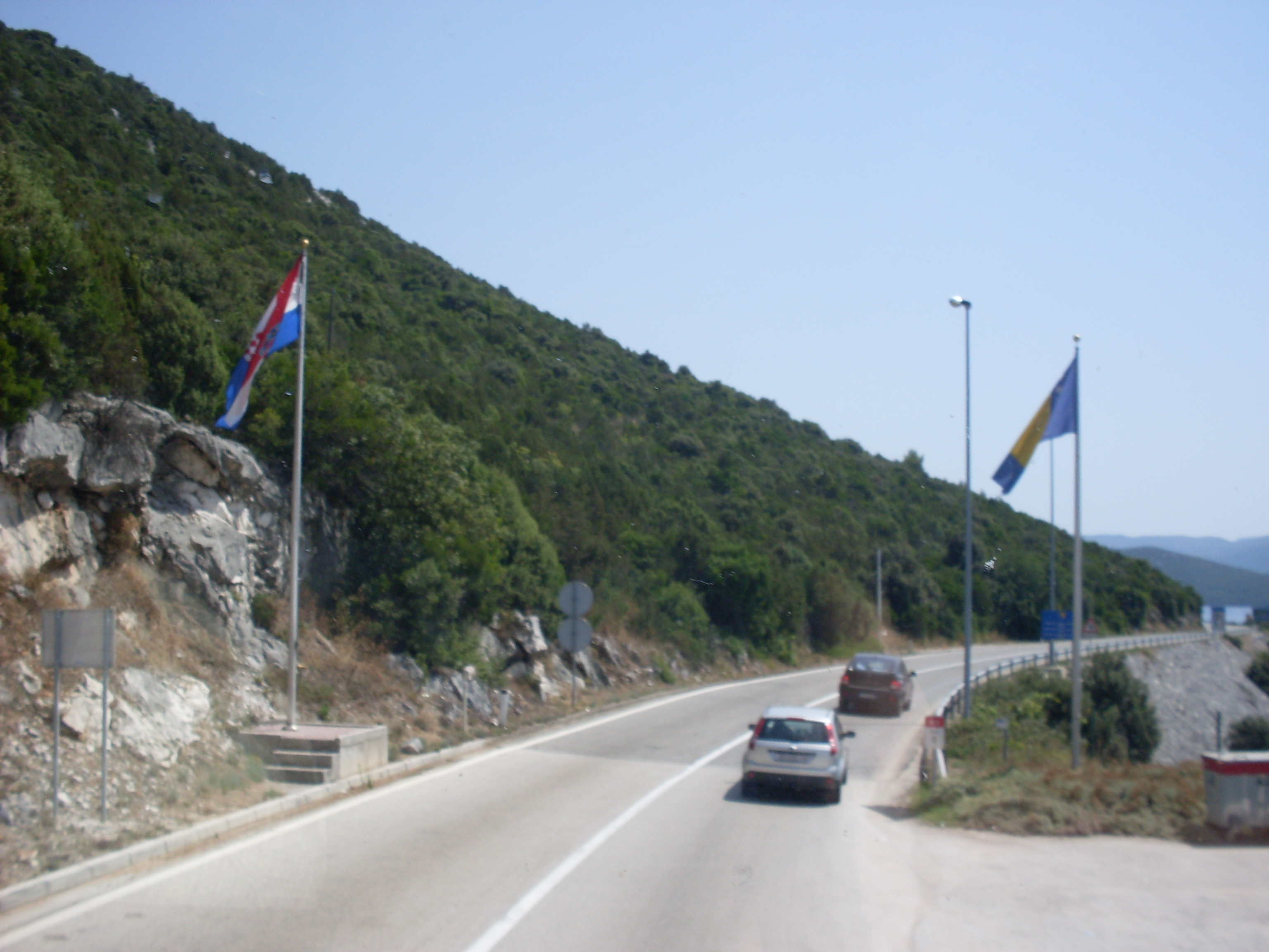 International border between and Croatia and Bosnia and Herzegovina near Neum